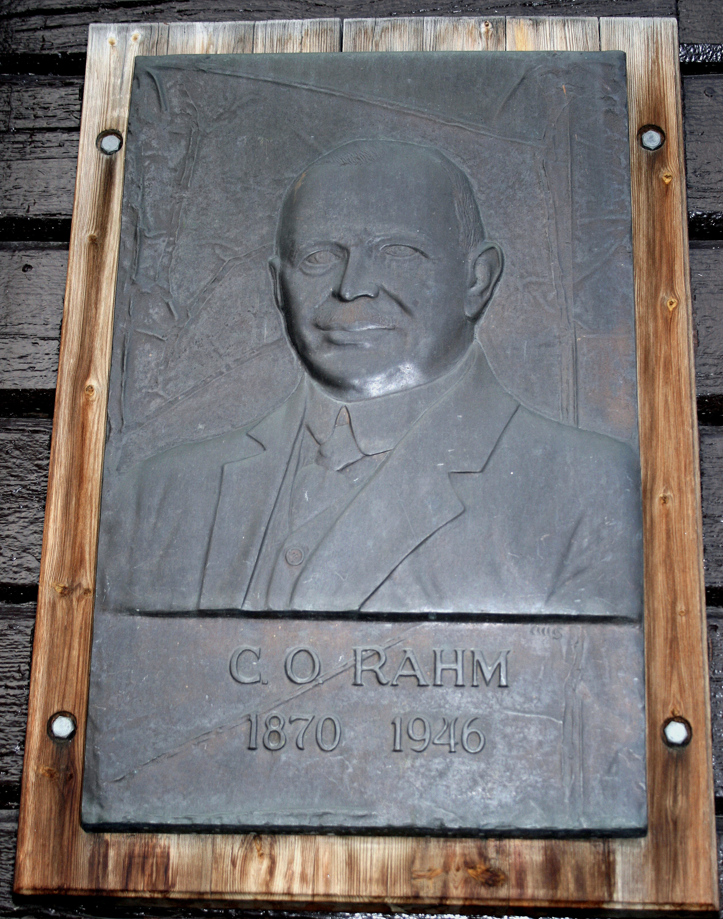 Carl Olof Rahm